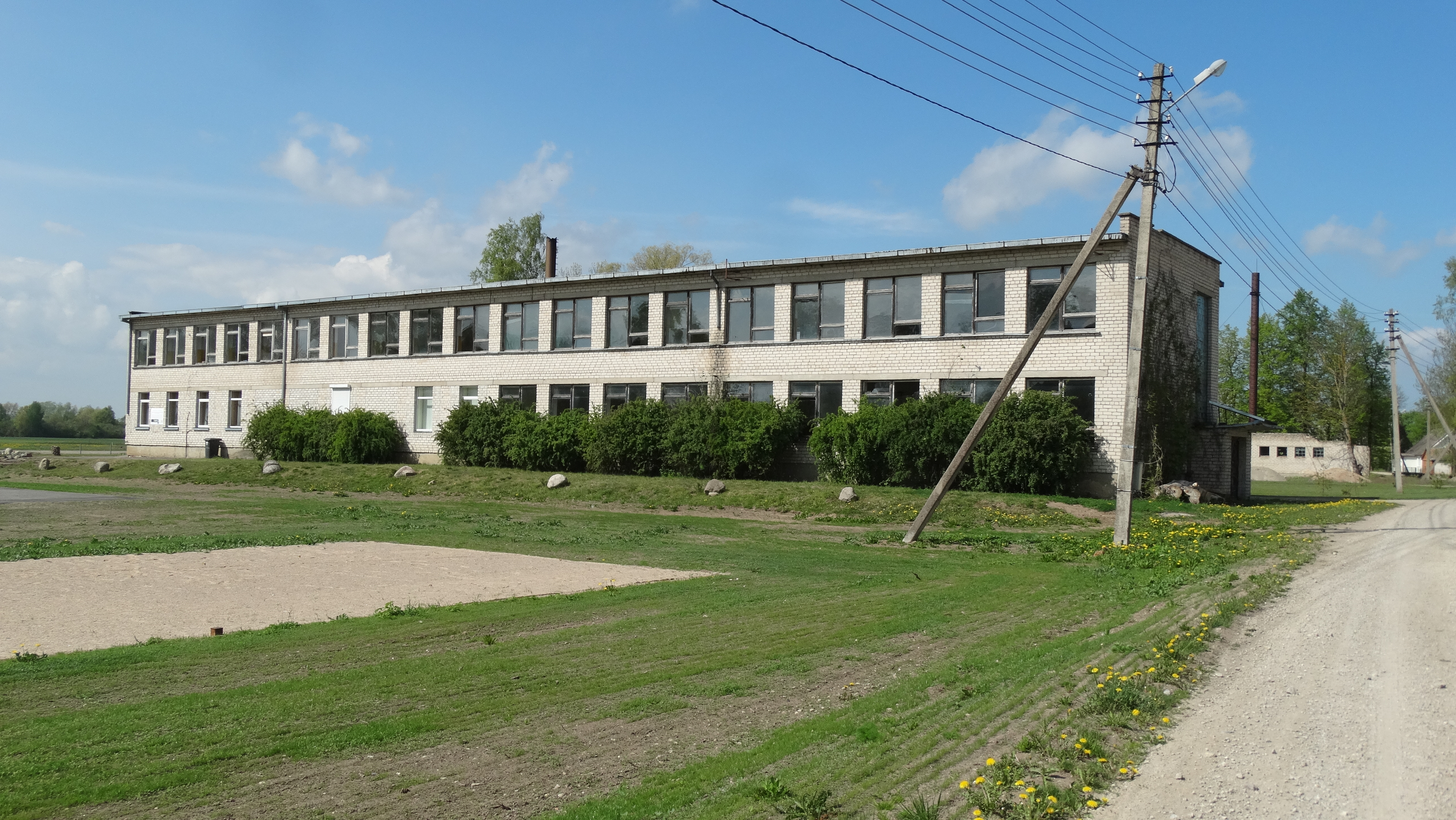 Former school, Ūdekai, Pakruojis district, Lithuania